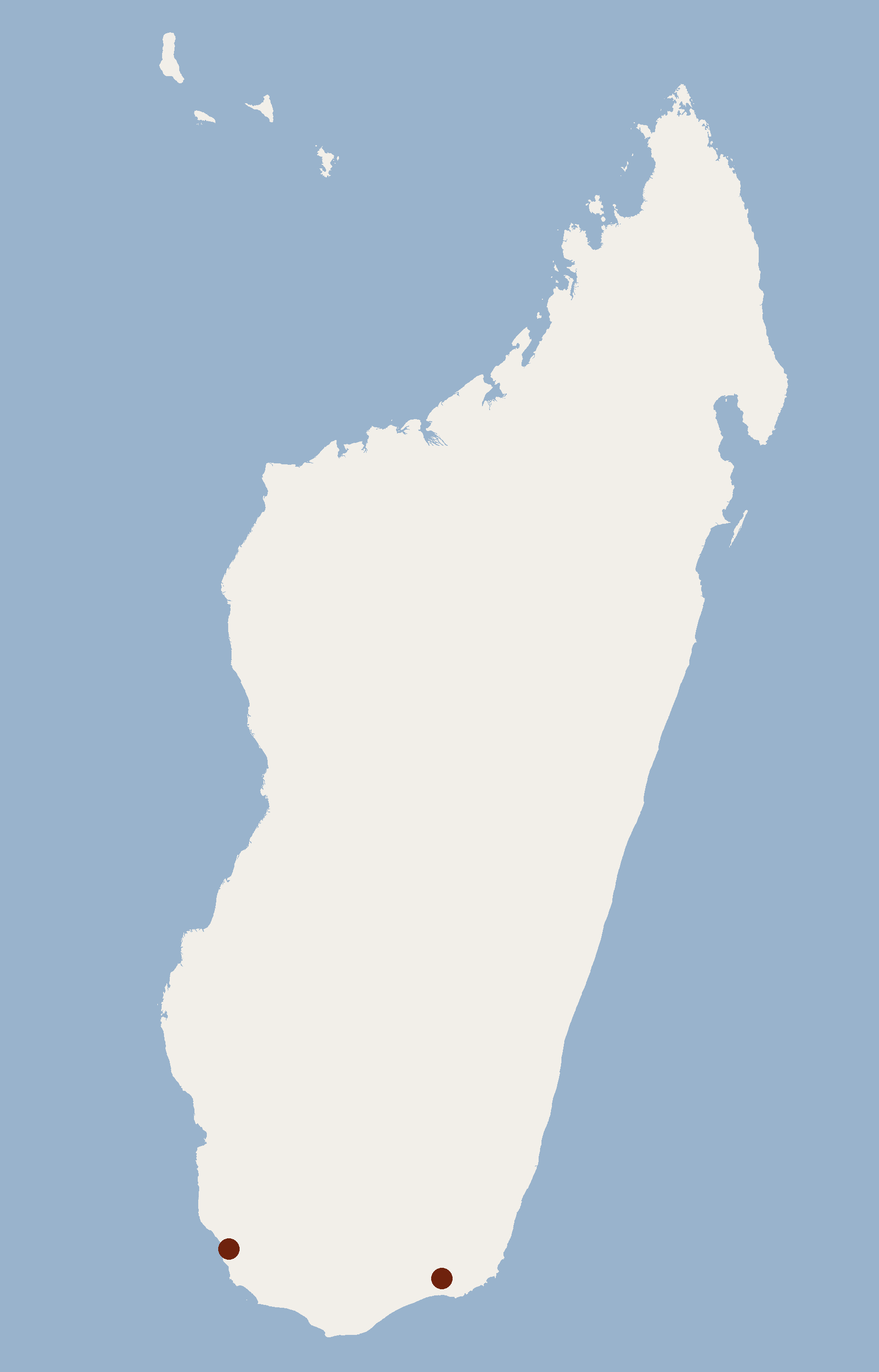 Geographical distribution of Miniopterus griffithsi according to Museum specimens